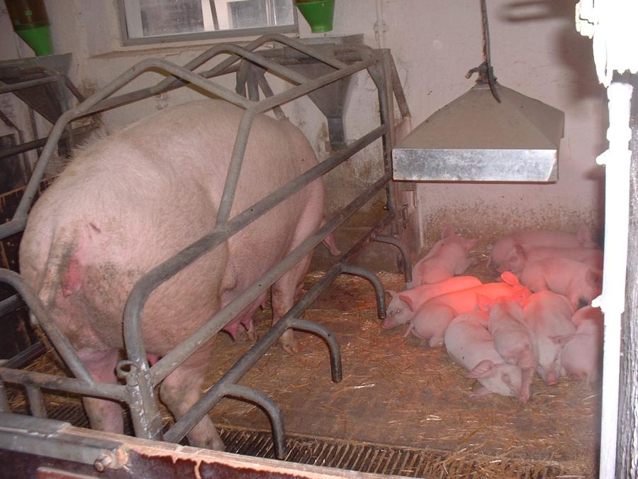 pig and piglets in a gestation crate